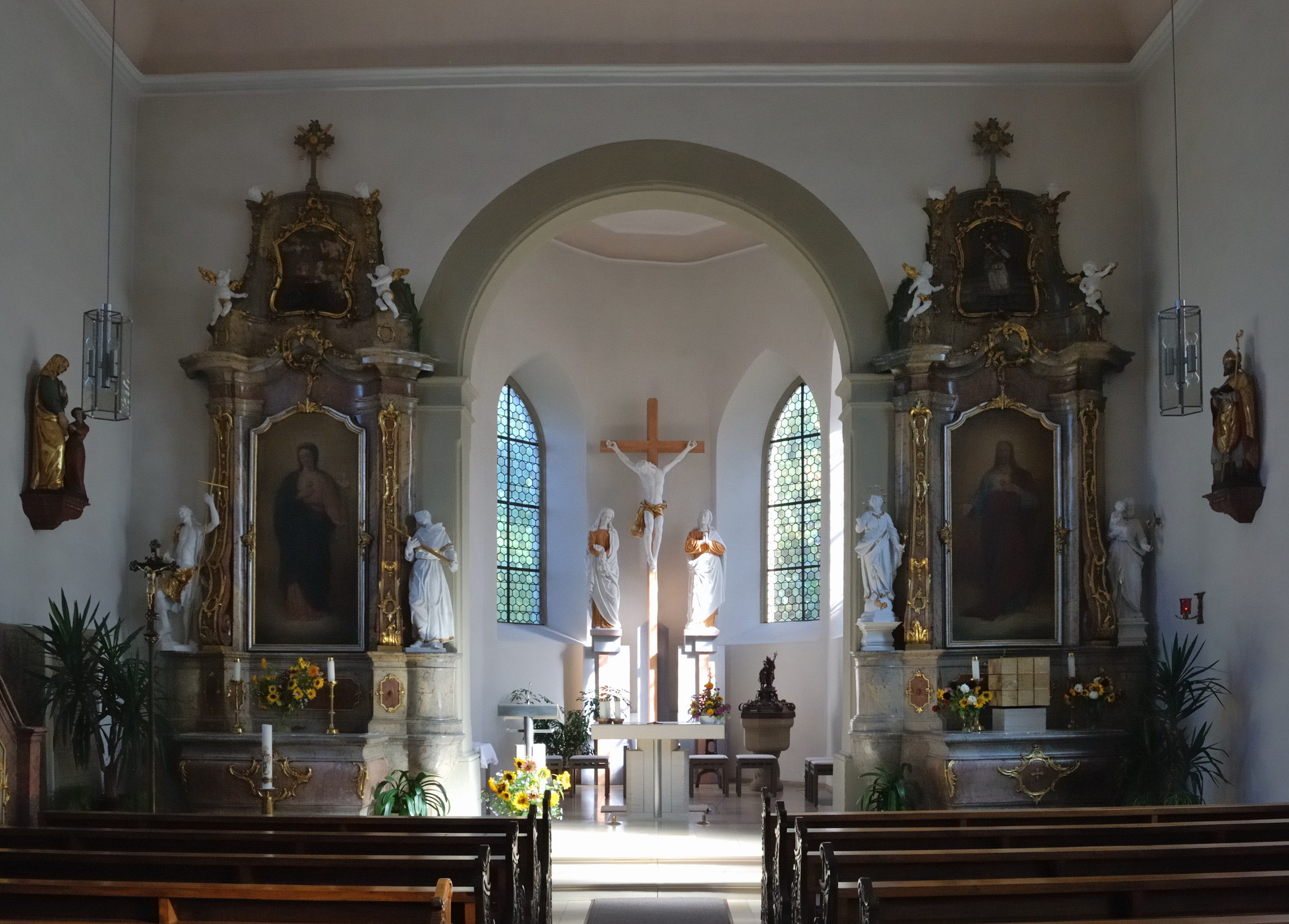 Catholic church St. Burchard in Jagstberg, a part of the city Mulfingen in the district of Hohenlohe in Germany.